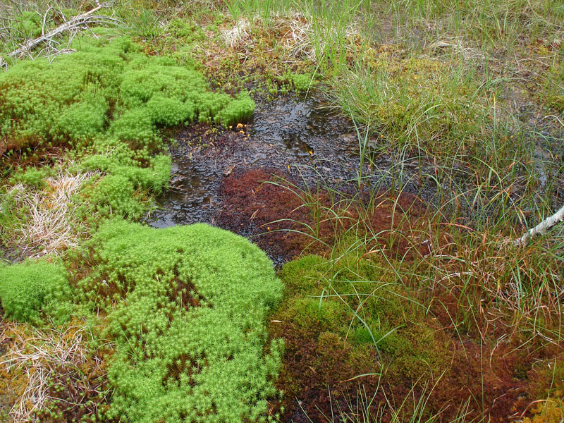 Source in a mire in Nordmaling's municipality in northern Sweden.